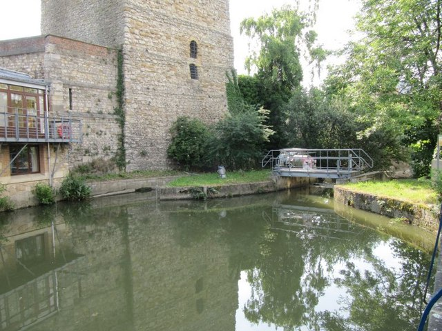 Castle Mill Stream beside Oxford Castle, England. On the left is the base of St George's Tower. On the right is the weir. The castle had a watermill here.